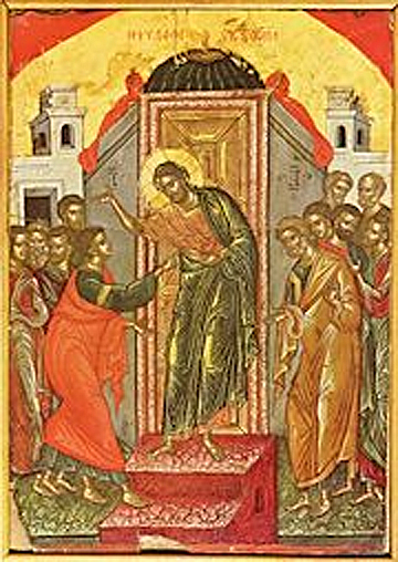 Saint Thomas' Confession. Orthodox icon.